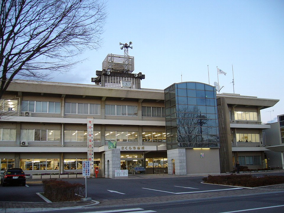 City office of Sakura, Tochigi Prefecture, Japan.